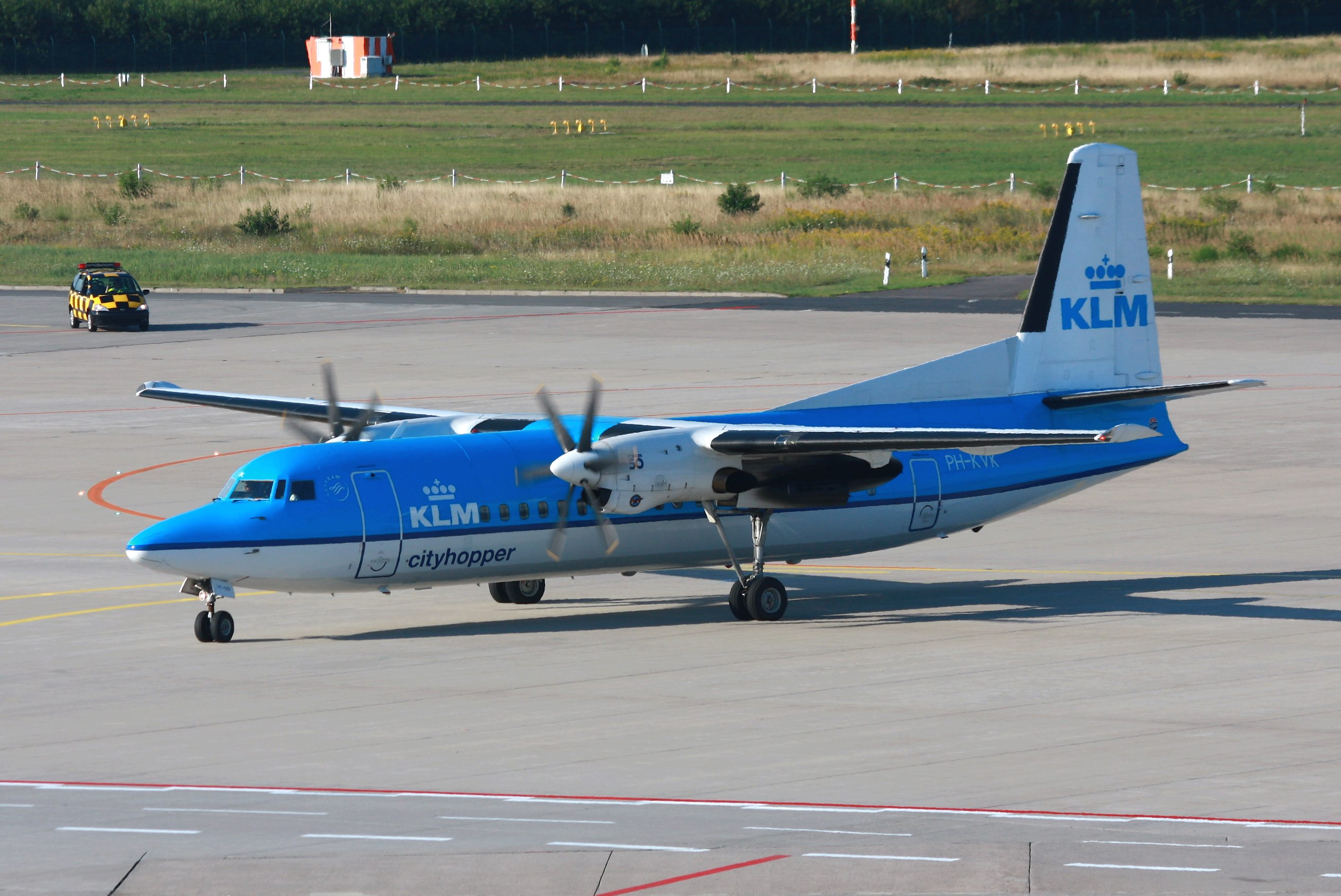 Fokker 50 (PH-KVK) of KLM cityhopper taxi to parking position in Cologne Bonn Airport